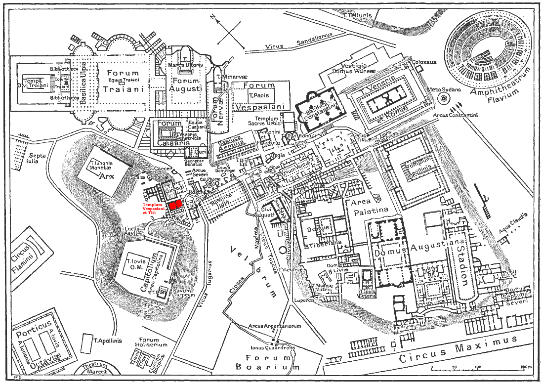 Map of antique downtown Rome, Temple of Vespasian is highlighted